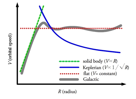 Comparison of common rotation curves (solid-body, Keplerian, and flat) with a sample galactic rotation curve.